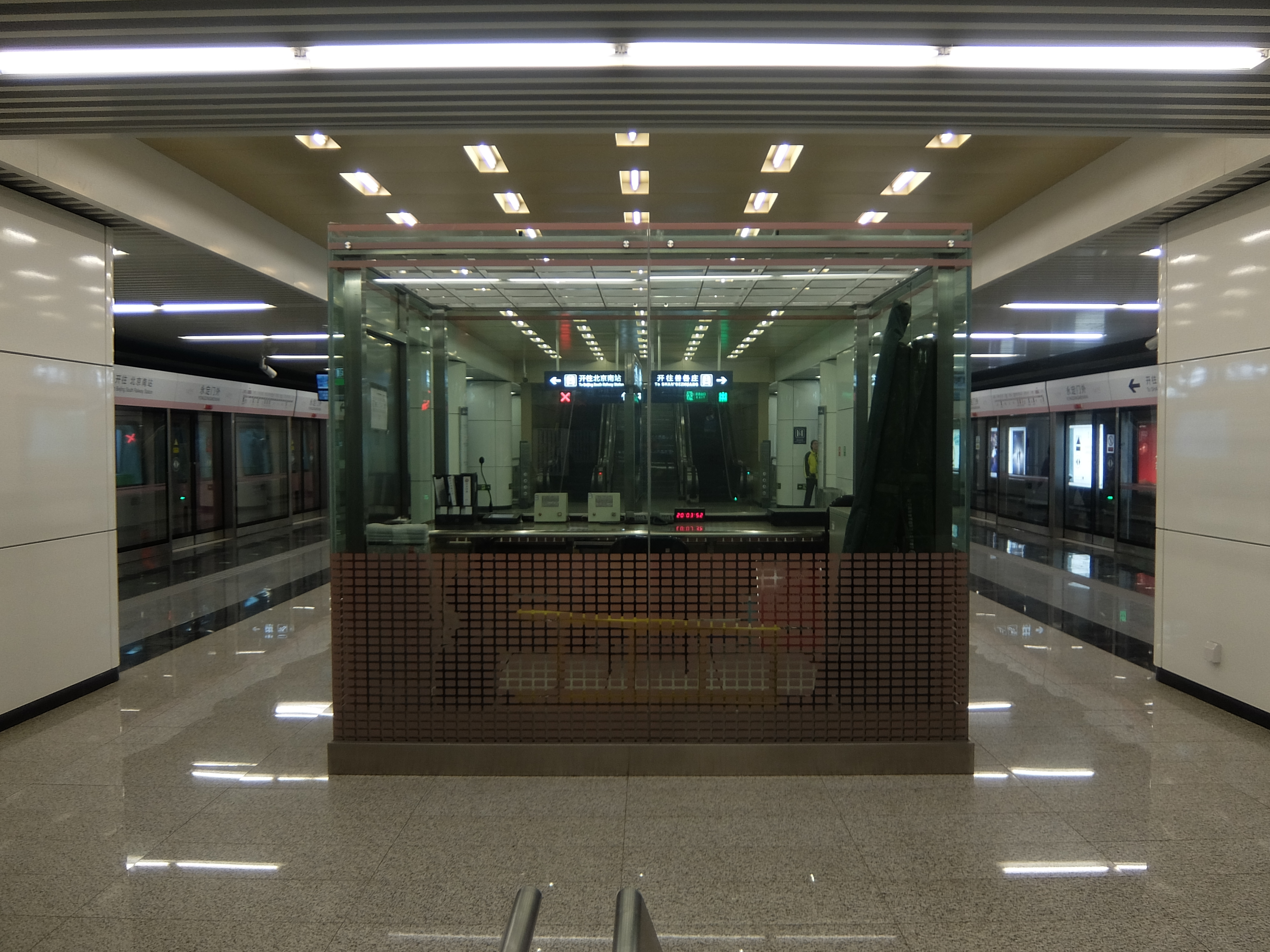 Platform of Yongdingmenwai Station on Line 14 of the Beijing Subway